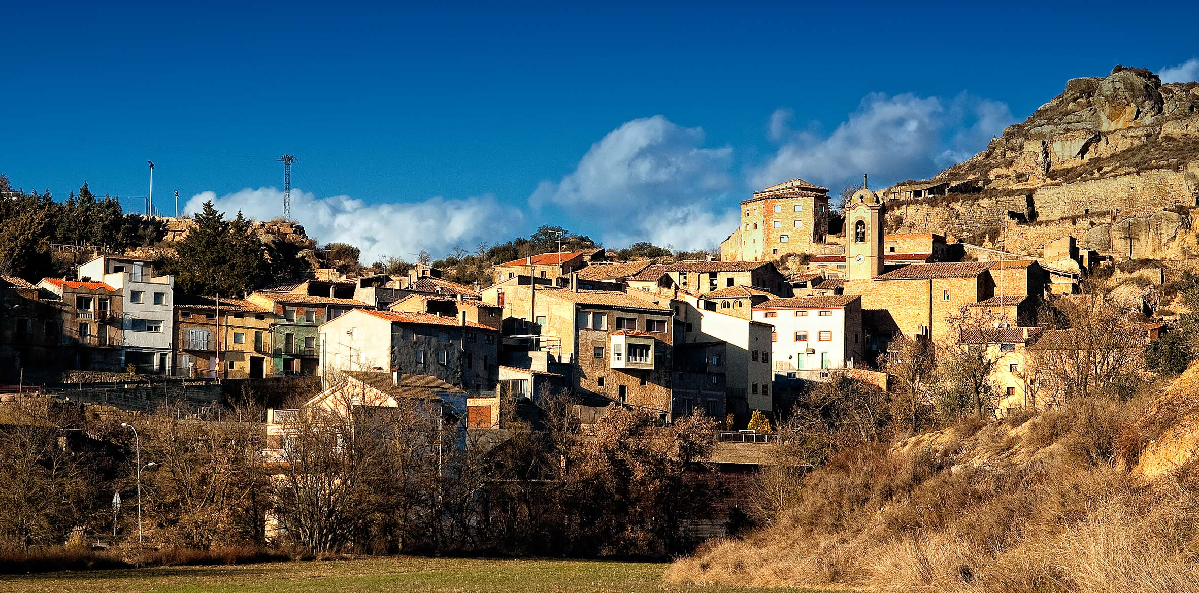 General landscape of Biosca (Catalonia, Spain)